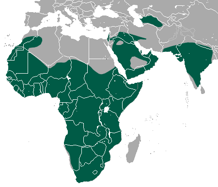 Honey Badger (Mellivora capensis) range